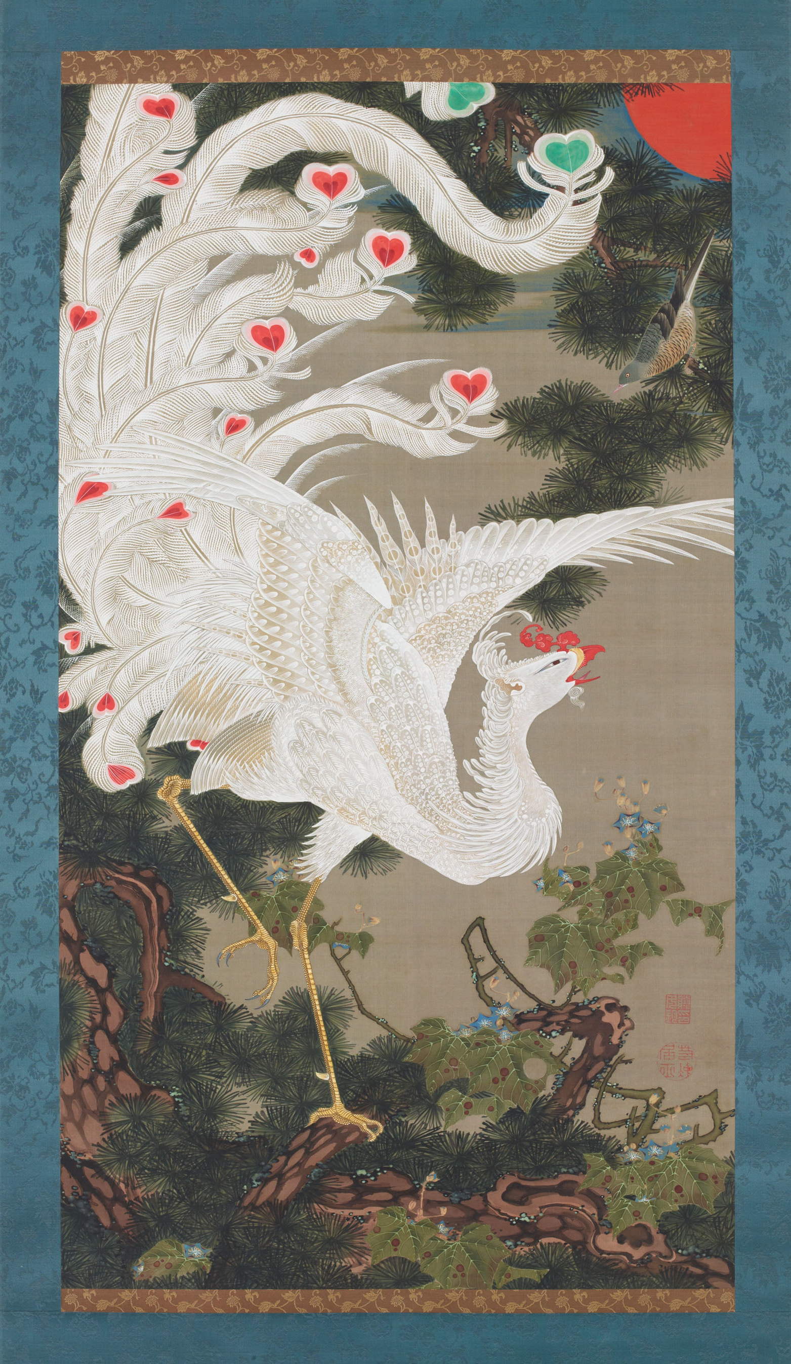 Ito Jakuchu's "White Phoenix on Old Pine from the Colourful Realm of Living Beings" (Edo Period).